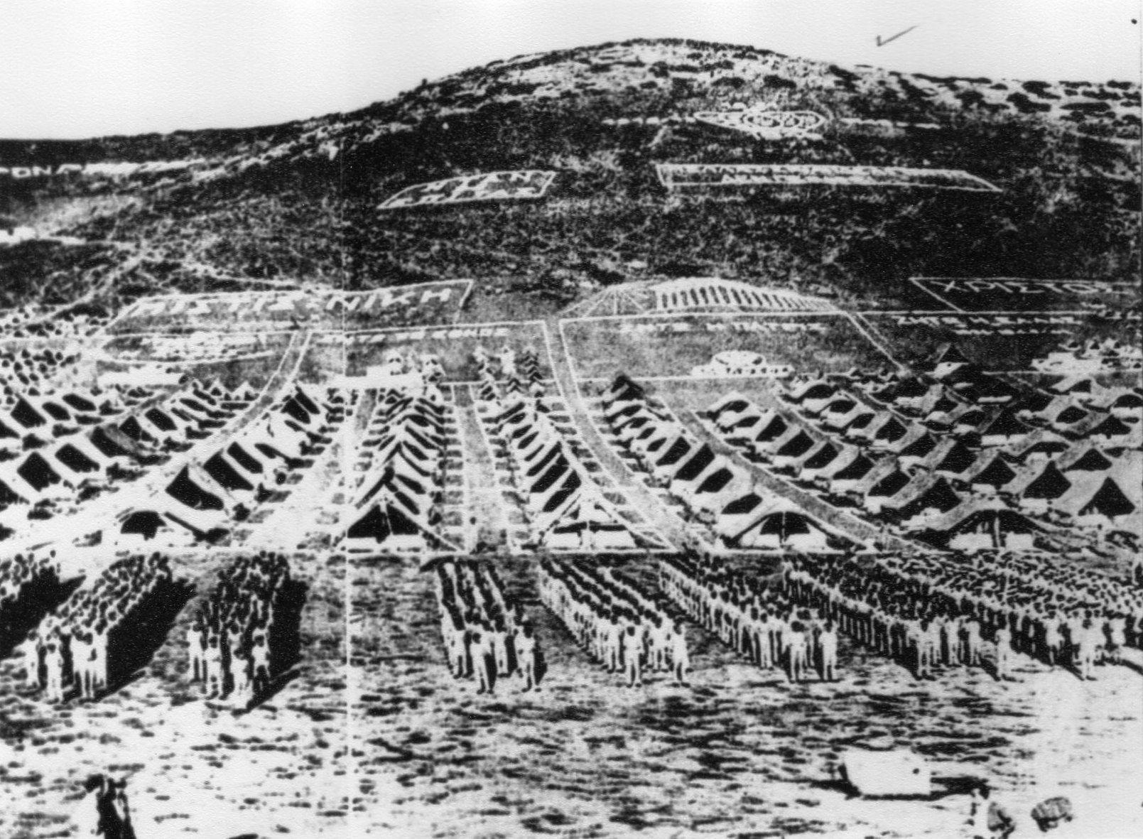 Camp of the government army. Greek Civil War (1945-1949) This media file is produced by Wikipedian in Residence in Category:Wikipedian in Residence at DARM in 2016.